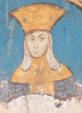 “detail: Carica, daughter of King Milutin” Fresco in the Serbian Orthodox Visoki Dečani monastery, part of the Nemanjić family tree fresco (1346).